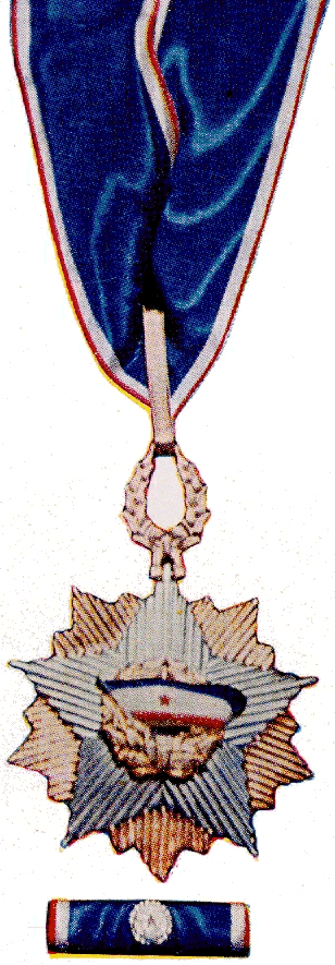 Order of the Yugoslavian flag with golden star on necklace